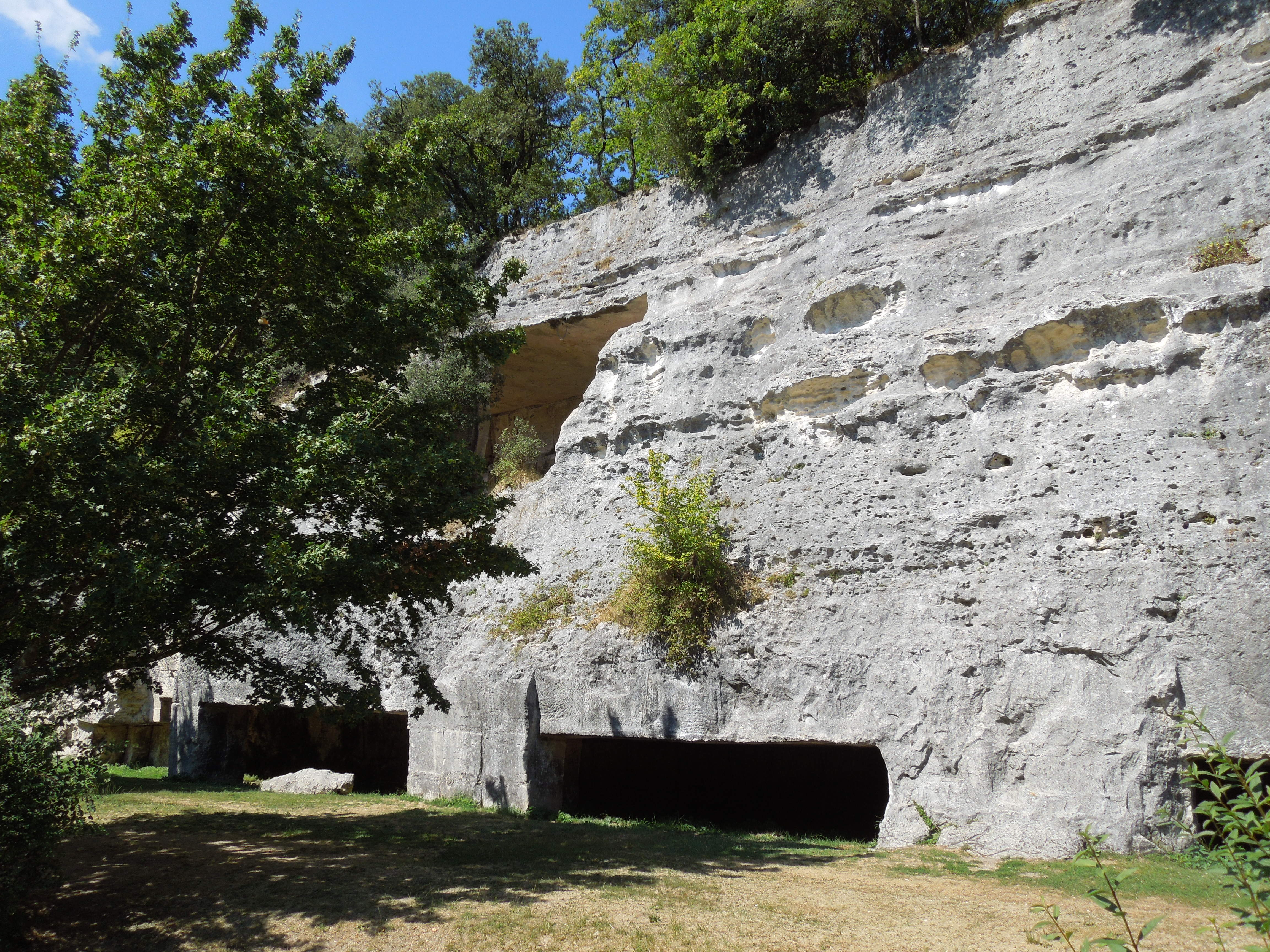 The Cliffs of Cordis near Marignac, an ancient quarry maintained and sanctioned by the FFME as a rock climbing site